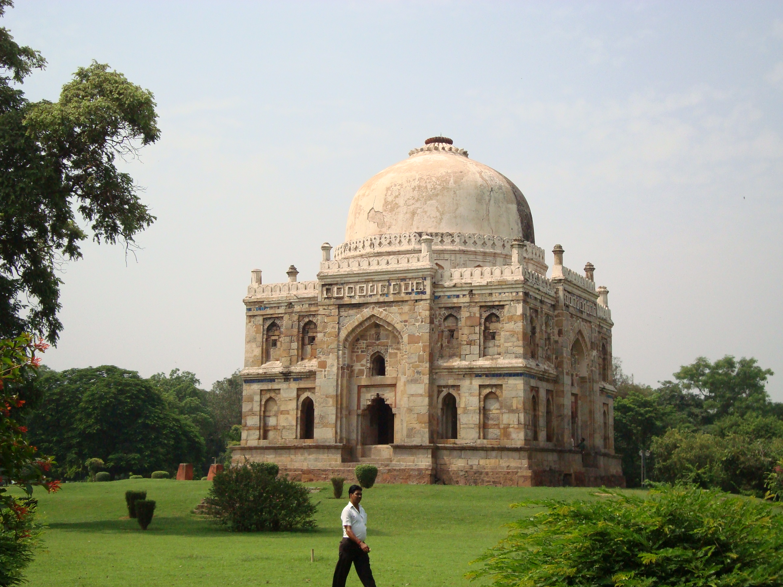 Sheesh Gumbad tomb in the Lodi Gardens in Delhi, India